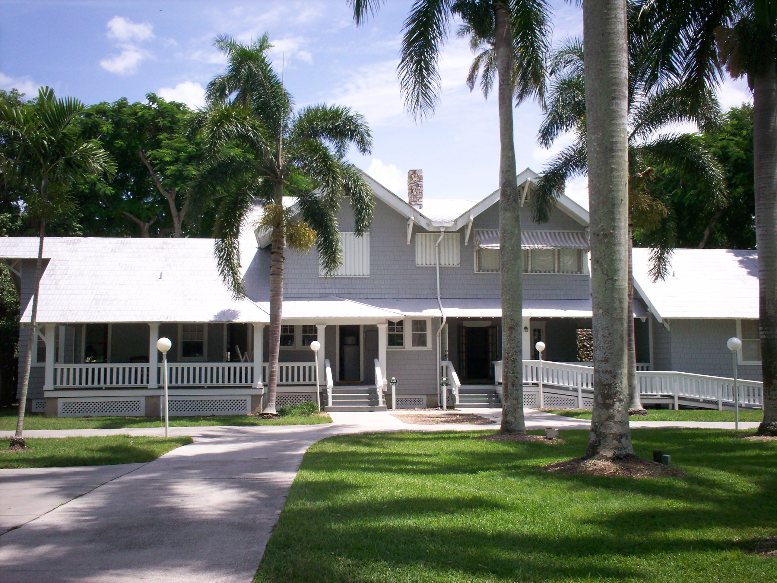 Edisons house Seminole Lodge